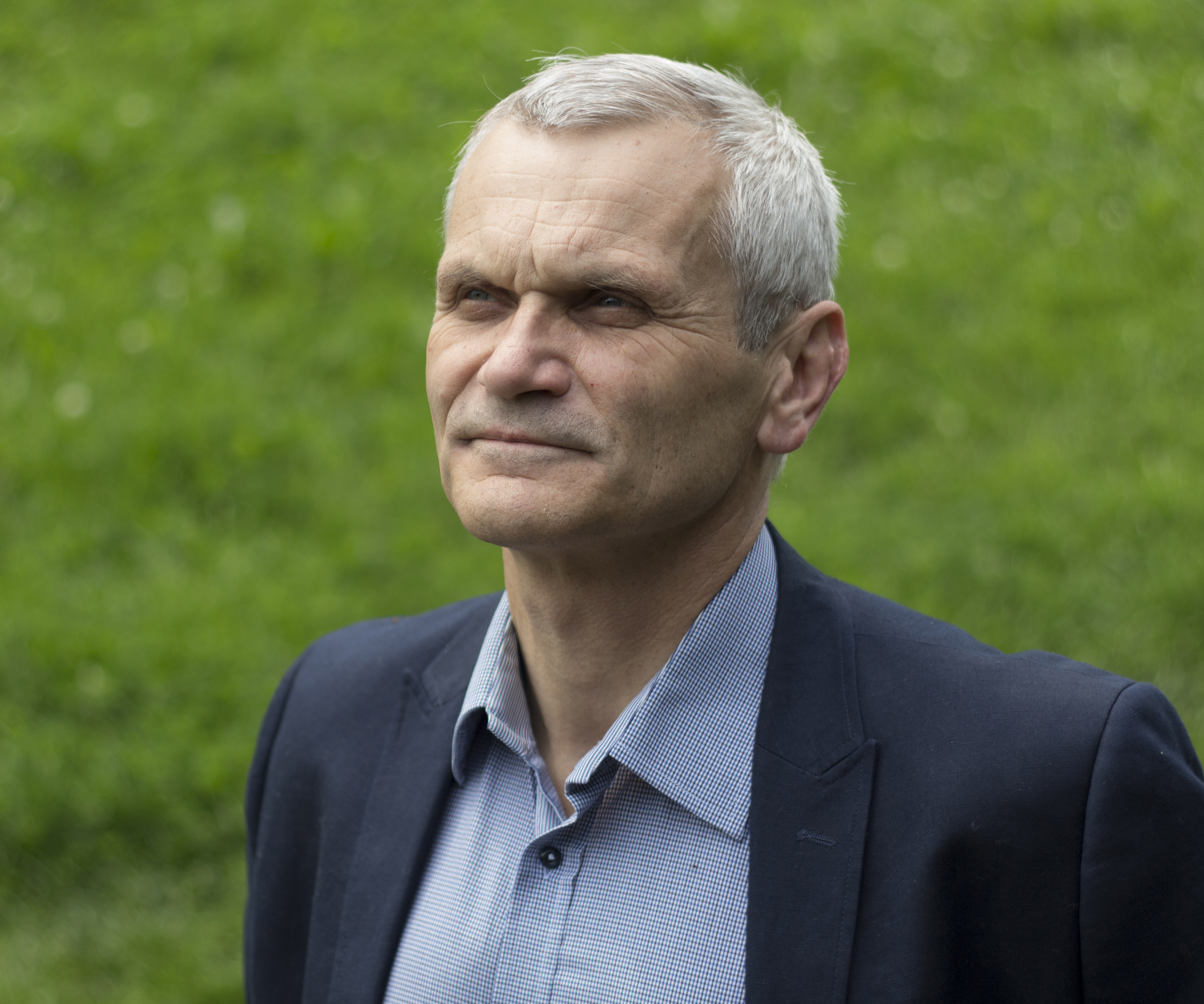 Marek Sanak, Polish geneticist and molecular biologist, professor of medical sciences, member of the Polish Academy of Arts and Sciences.